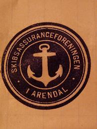 Company logo. Skibsassuranceforeningen i Arendal